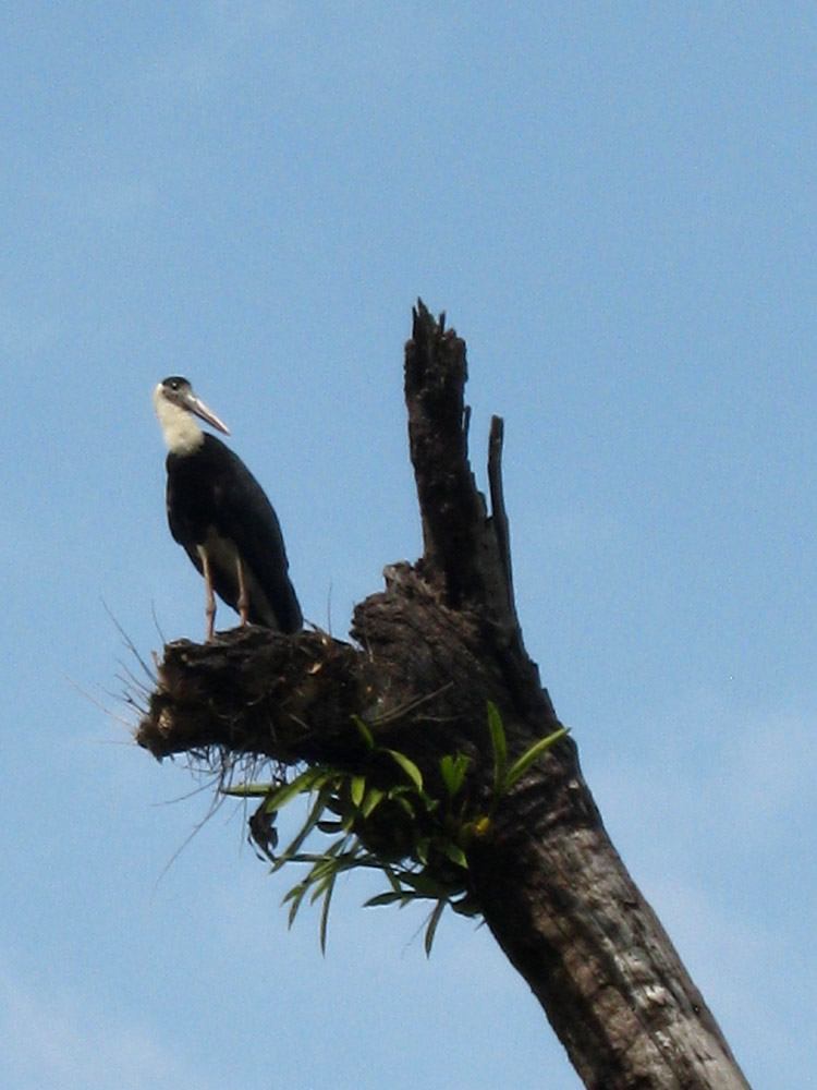 Wooly-necked stork @ Cat Tien National Park